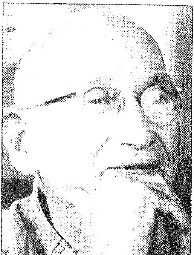 Photo of Jack Venman. Cropped JPG version of file available at File:Jack Venman.pdf.